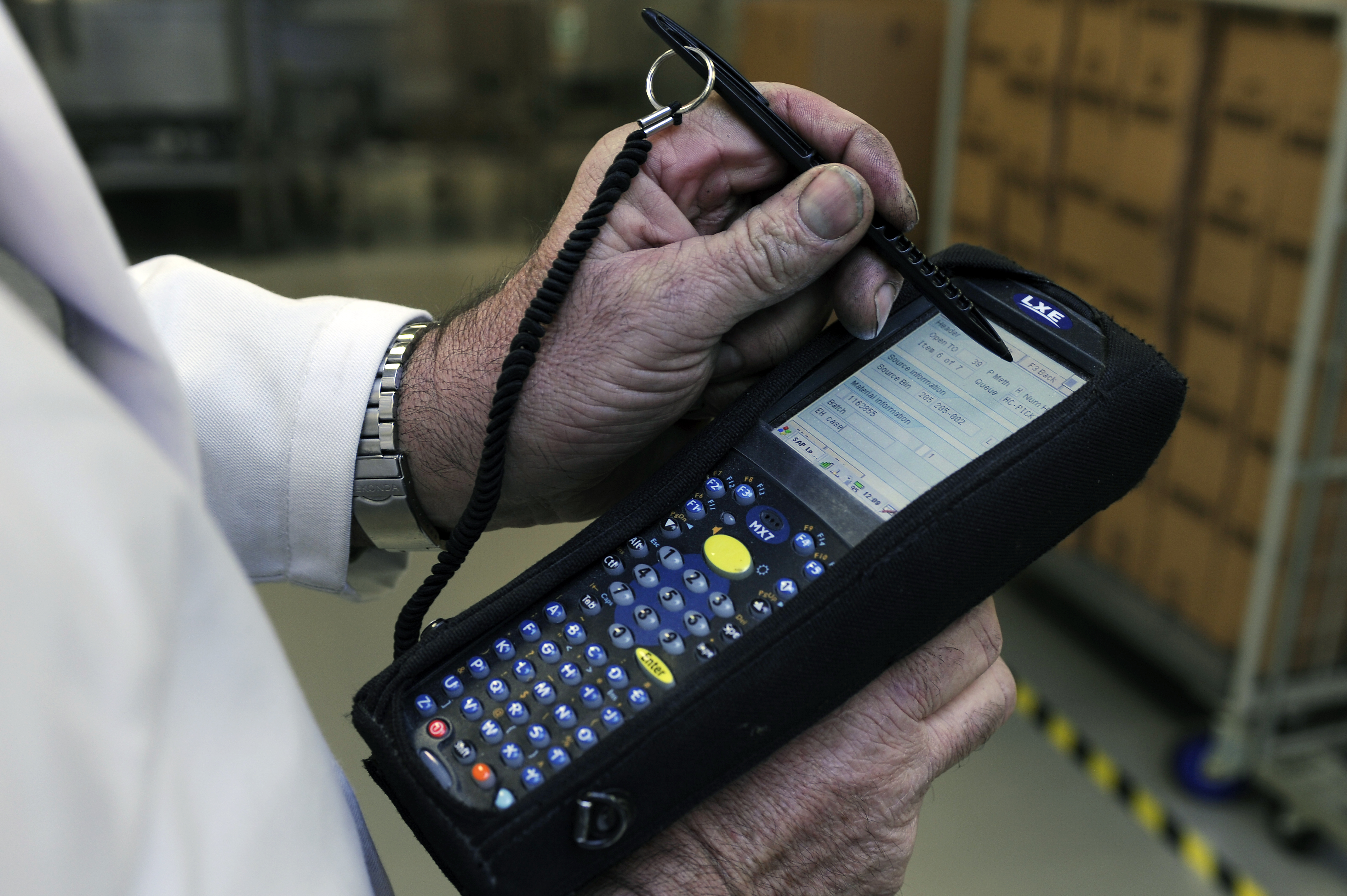 A member of staff at a radio-pharmaceutical manufacturer (GE Healthcare) at Amersham, Bucks, United Kingdom, views his control gun as he prepares to process the next order of radioactive materials. 15 December 2011